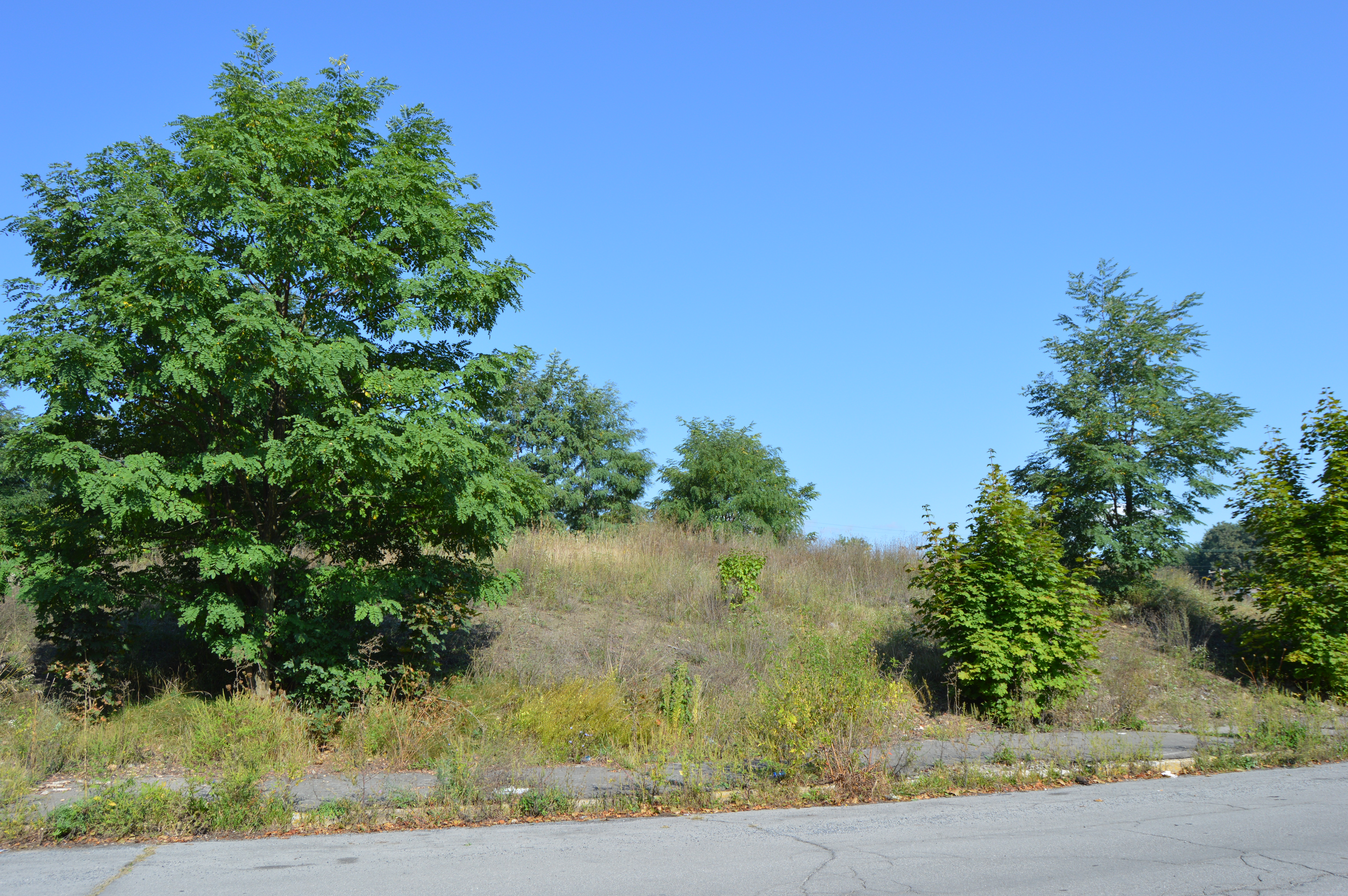 Site of the J.L. Noble School on the western corner of Twelfth Avenue and Third Street in the Juniata section of Altoona, Pennsylvania, United States. Built in 1912, the school was listed on the National Register of Historic Places in 1996; it remains listed on the Register, despite its destruction.